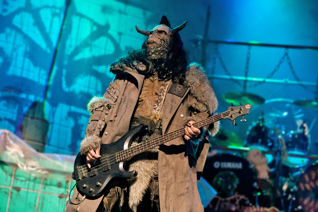 Picture of Ox from Lordi @ Transbordeur, Lyon